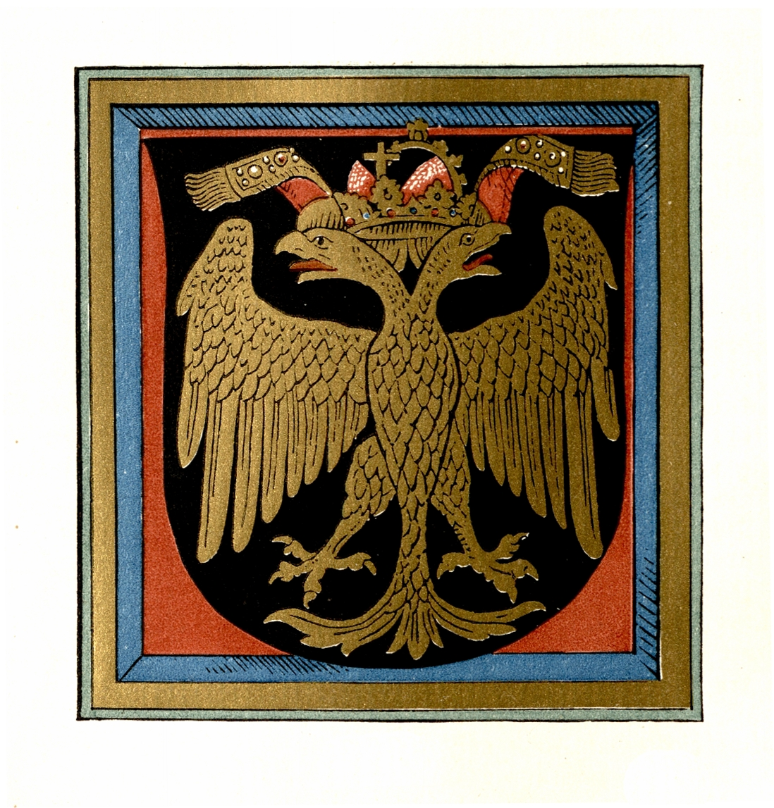 Artikel aus den Mittheilungen der kaiserl. königl. Central-Commission zur Erforschung und Erhaltung der Baudenkmale Band 11, 1866. Alle im PDF-Dokument enthaltenen Bilder stehen in Originalauflösung in derselben Kategorie zur Verfügung. Scanprojekt Bundesdenkmalamt Österreich This scan or this PDF-file was created within the Austrian Wikipedia-project Denkmalpflege Österreich (German only) supported by Wikimedia Germany and Wikimedia Austria as part of the Wikipedia community-project to collect public domain documents from the library of the Heritage Monuments Board of Austria. This document describes or depicts an object which is located in Austria today. Texts are written in German language. Send requests for uncompressed scans to Hubertl. This work is in the public domain in the United States, and those countries with a copyright term of life of the author plus 100 years or less. This file has been identified as being free of known restrictions under copyright law, including all related and neighboring rights.